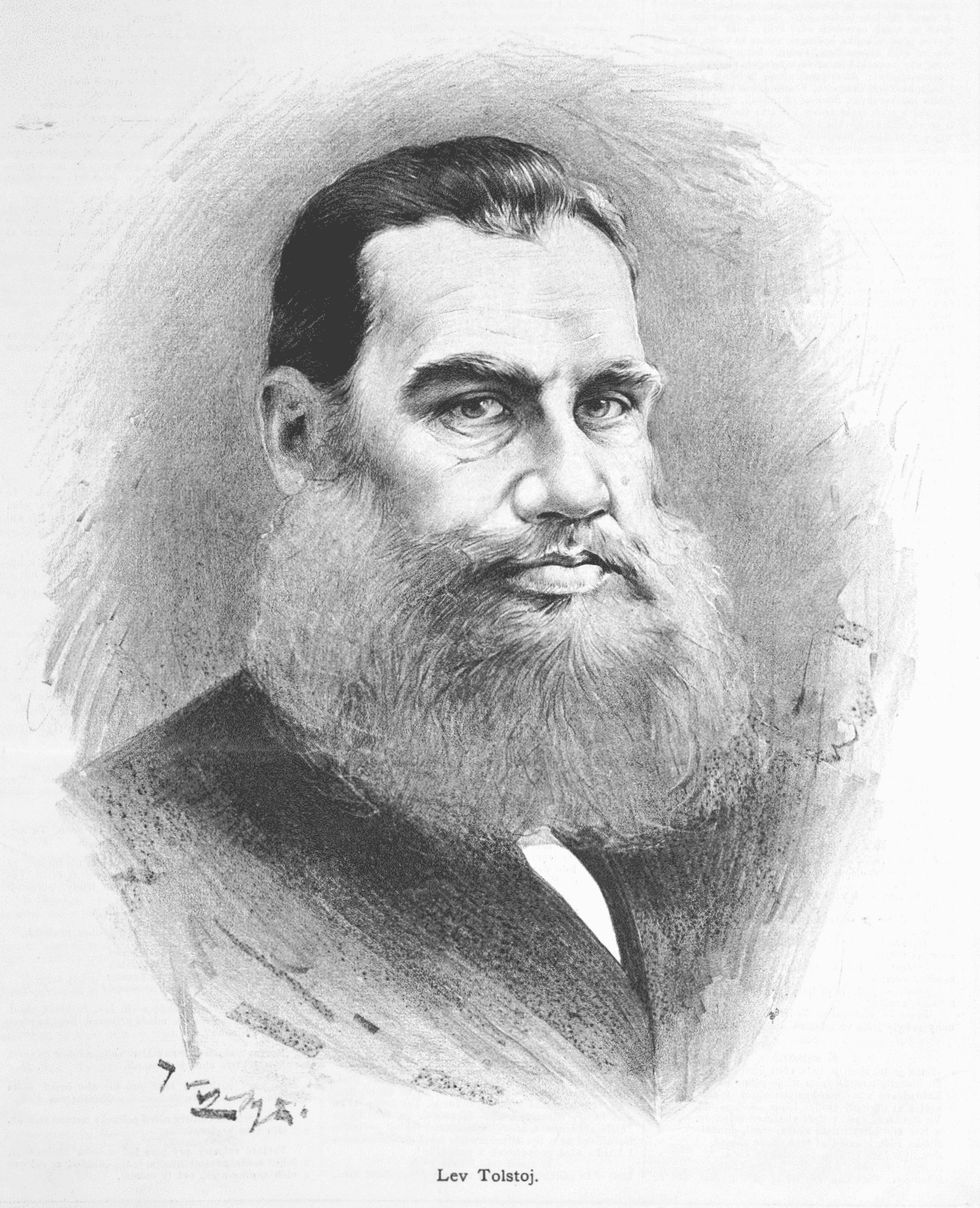 Count Lev Nikolayevich Tolstoy (commonly referred to in English as Leo Tolstoy) (September 9 (August 28, O.S.), 1828 – November 20 (November 7, O.S.), 1910) was a Russian novelist, reformer, pacifist and moral thinker, notable for his ideas on nonviolent resistance and his contribution to Russian literature and politics.